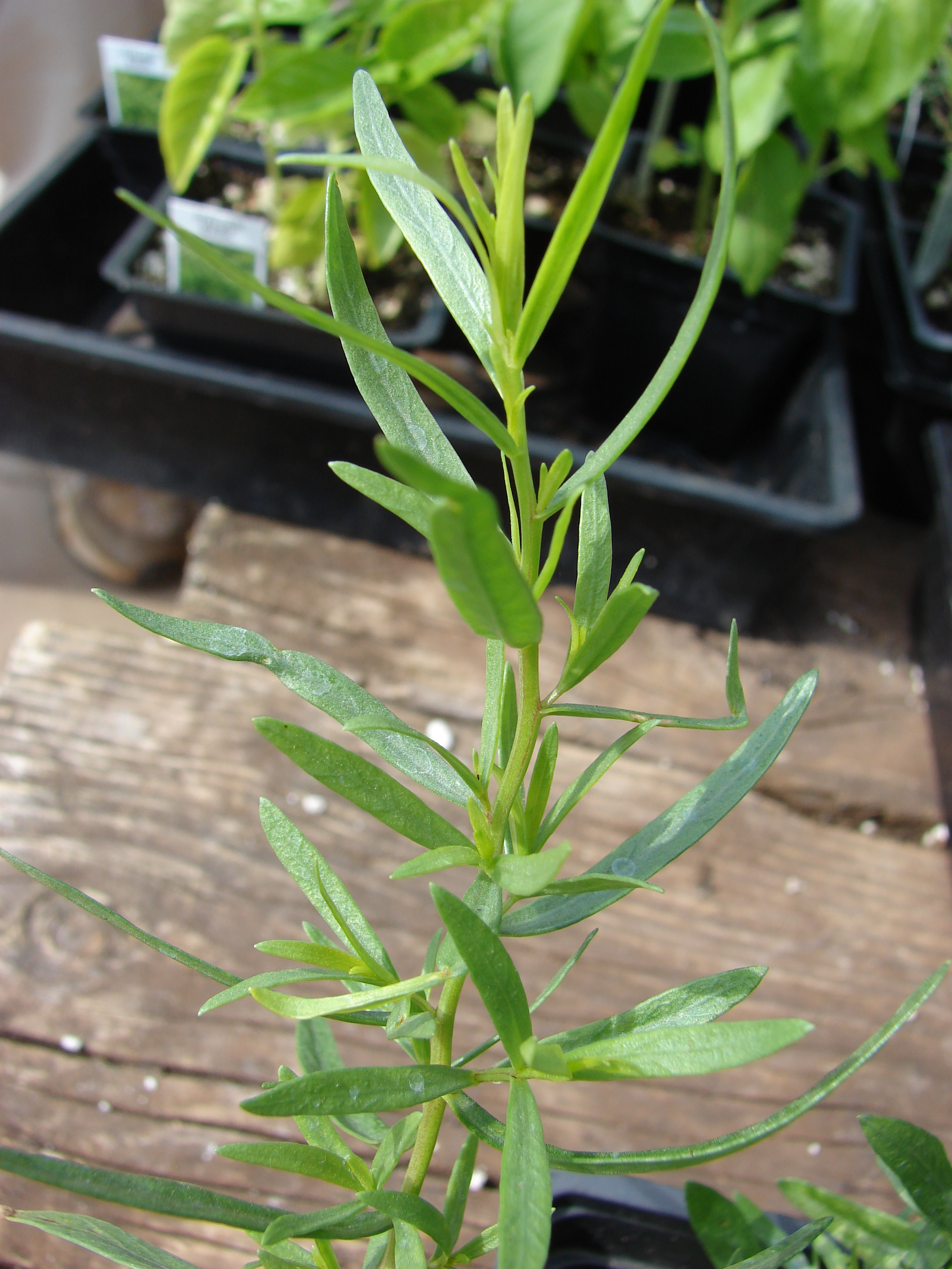 Artemisia dracunculus (habit). Location: Maui, Home Depot Nursery Kahului